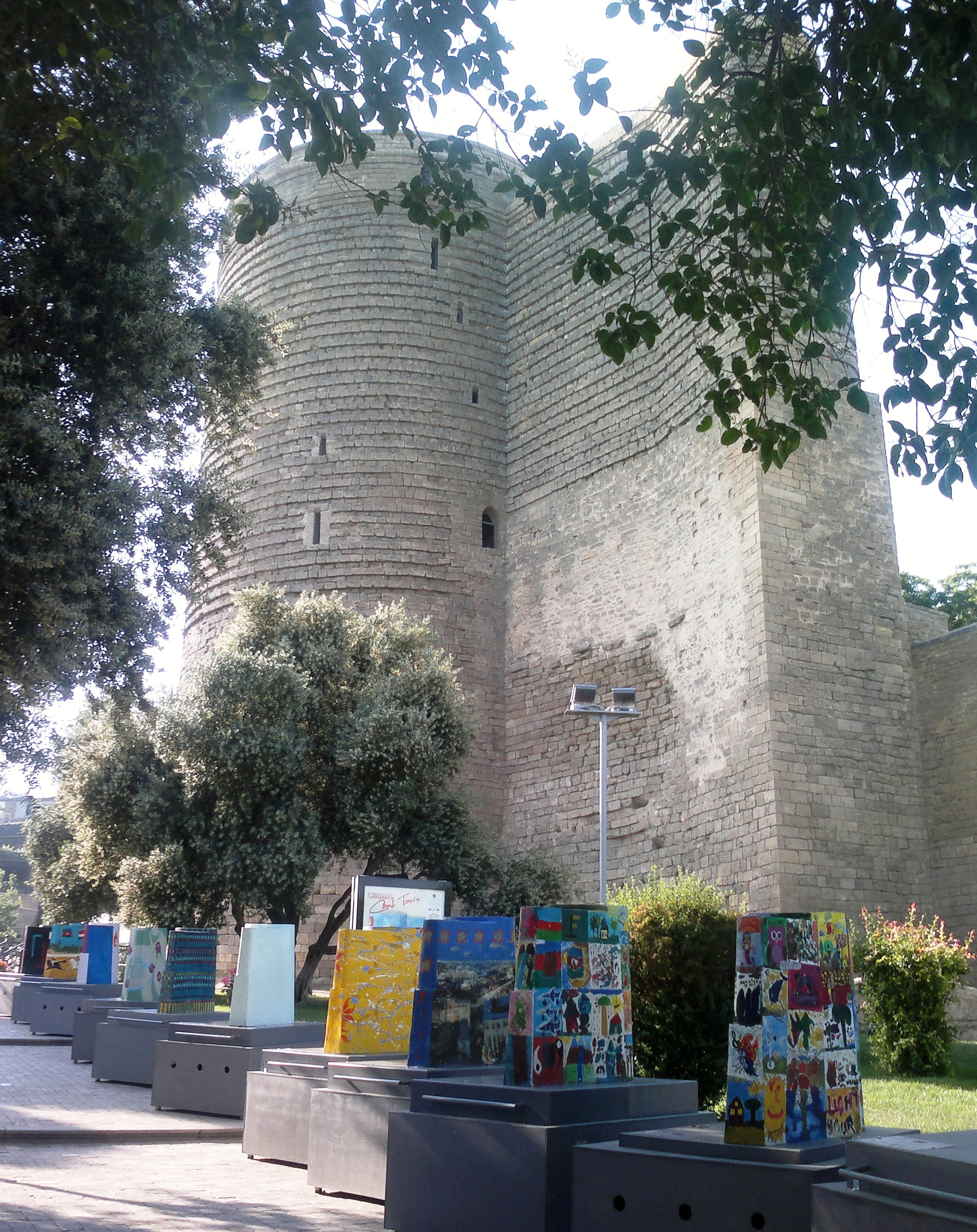 Maiden Tower during "Maiden Tower" International Art Festival